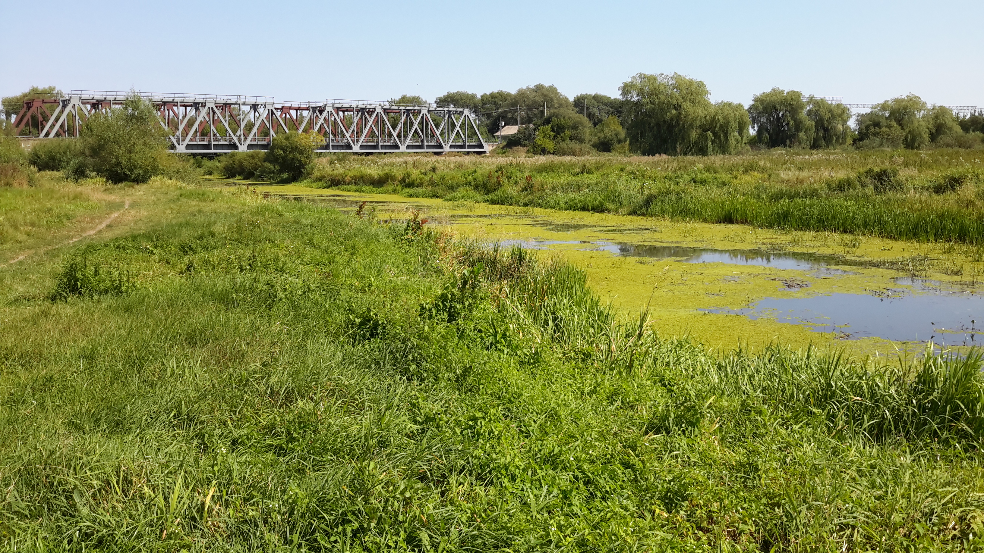 Kovel 2017-08-16